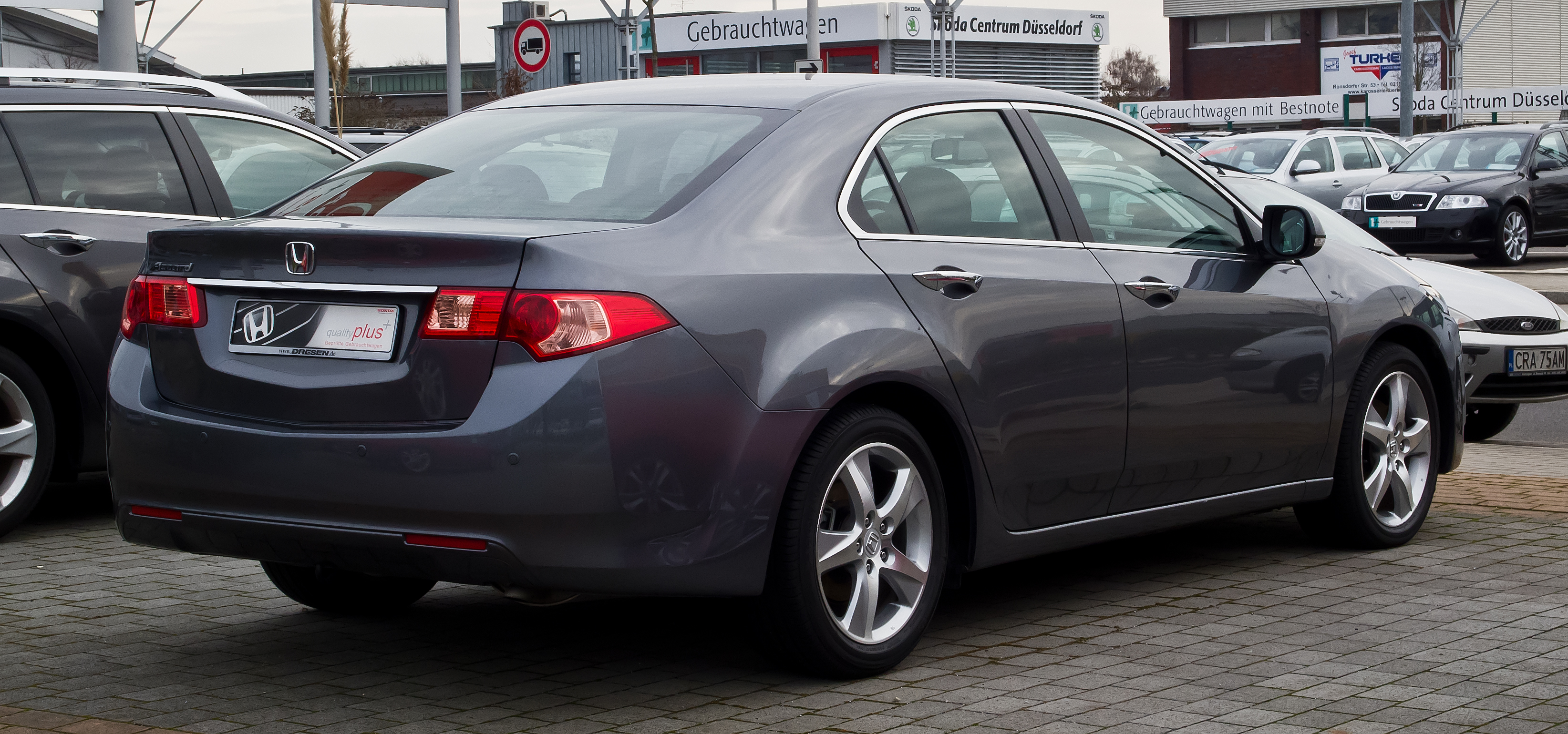 Honda Accord 2.2 i-DTEC Lifestyle (VIII, Facelift)